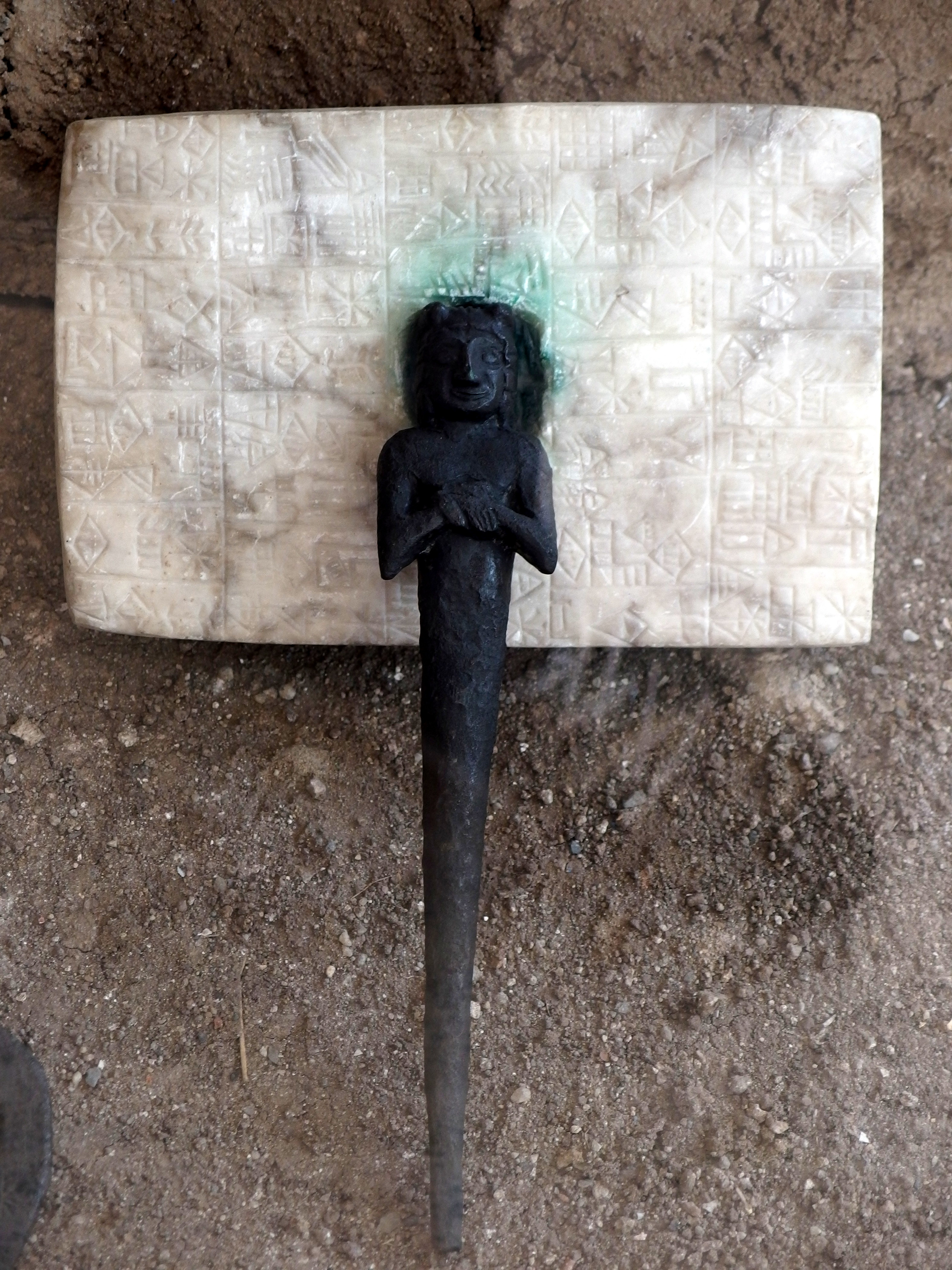 2013-12-05 in Istanbul.